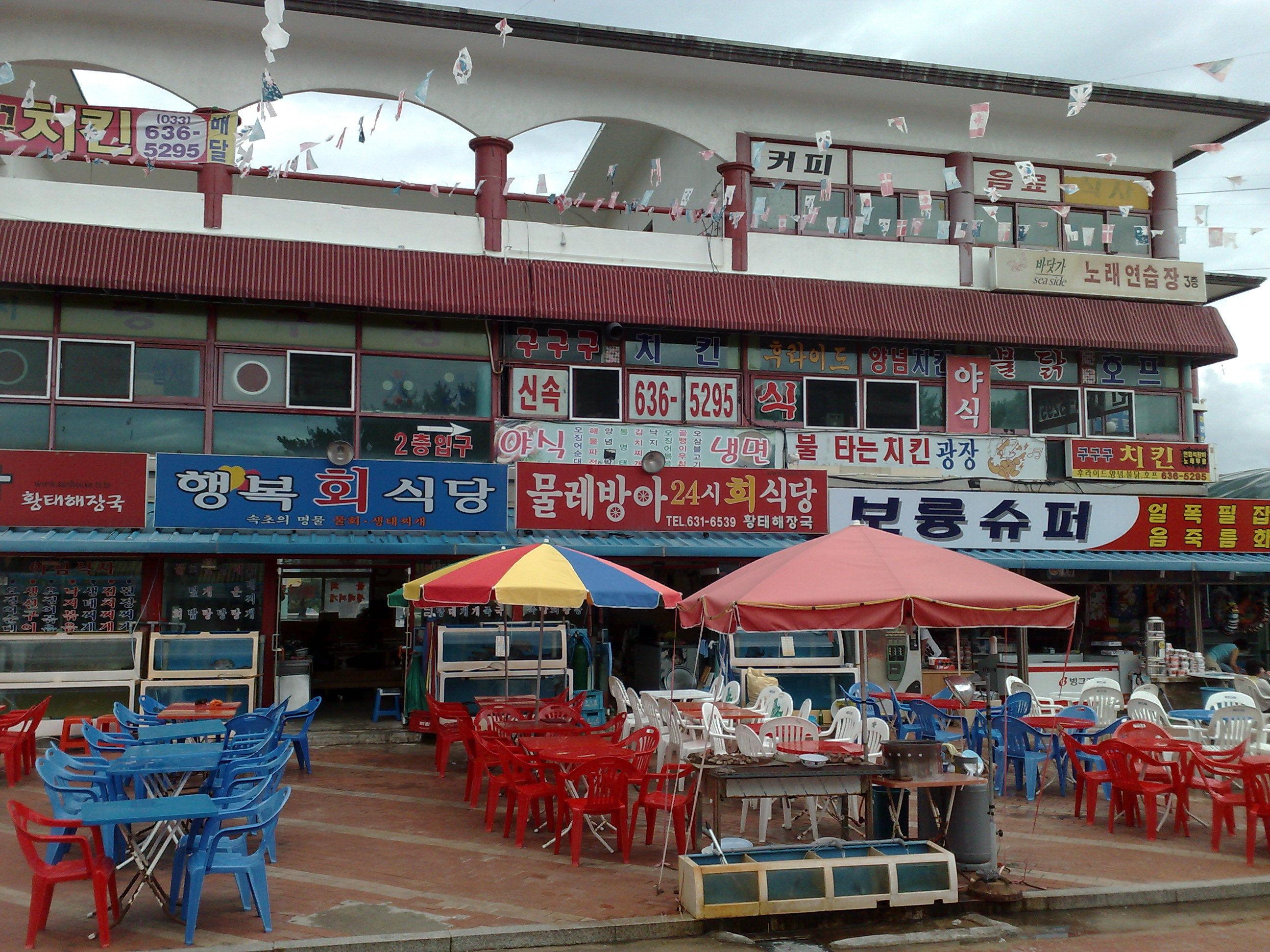 Beach shops in Sokcho, Korea.